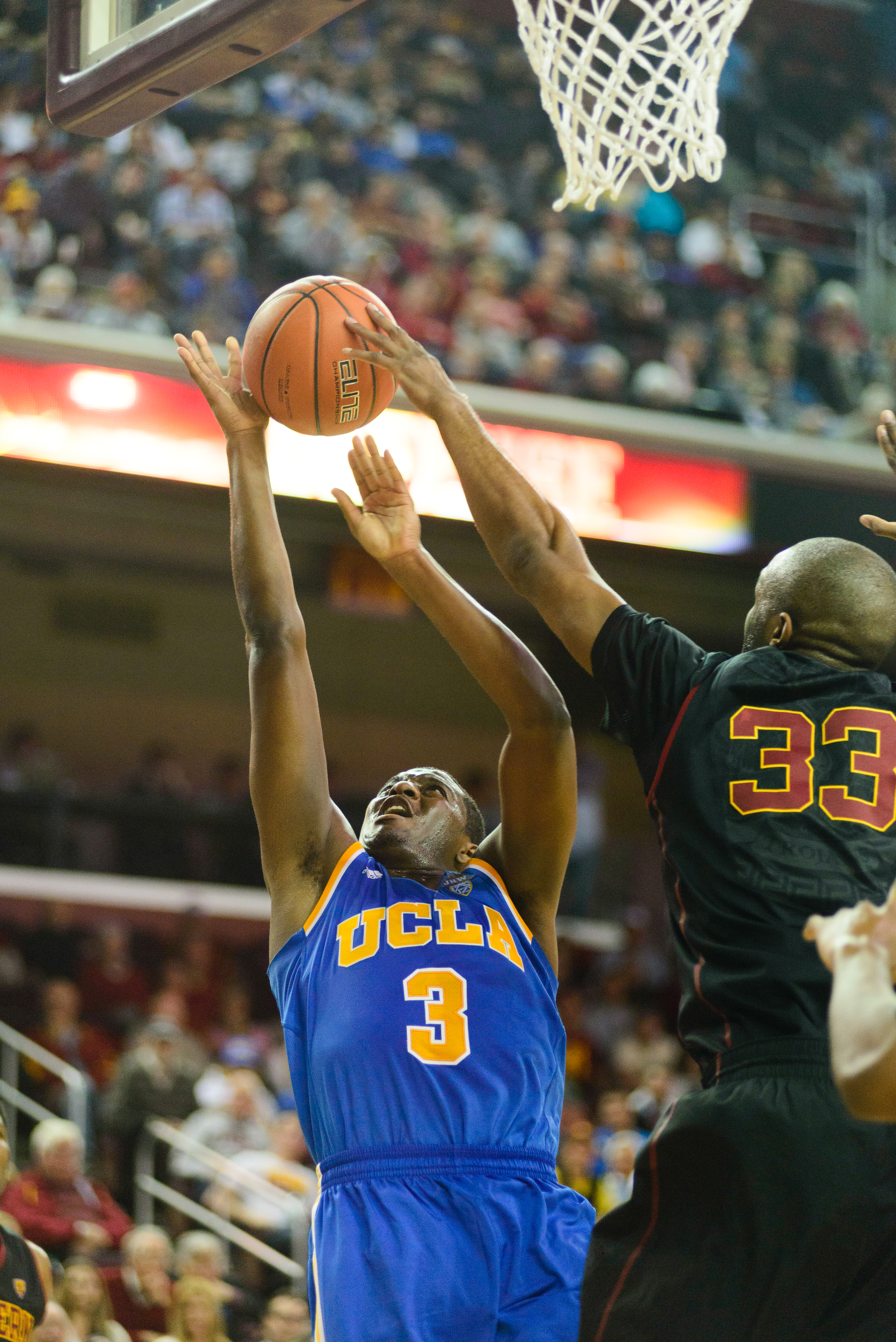 Jordan Adams for UCLA on attack against USC